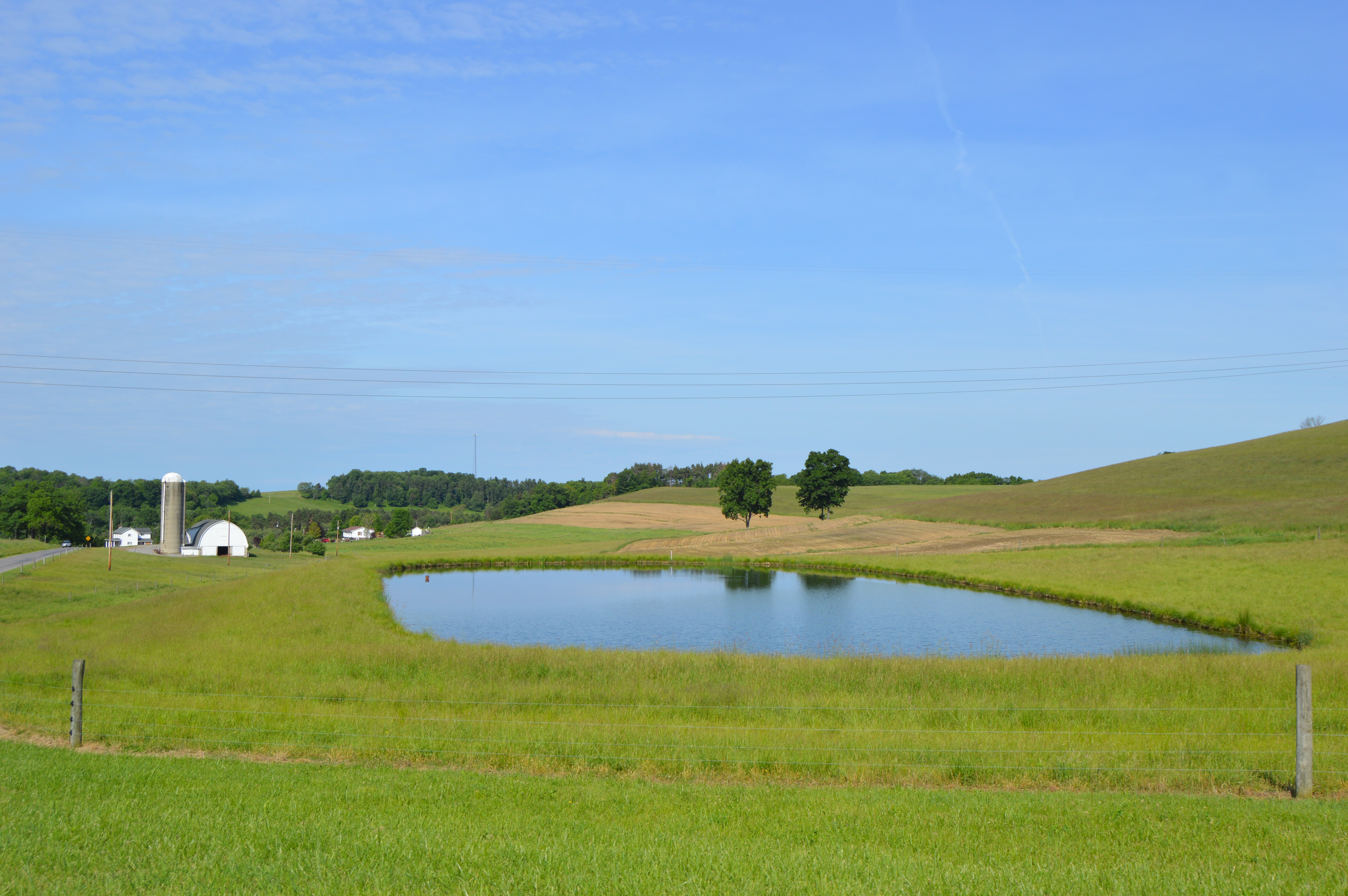 Fields, a pond, and a farmstead in south-central Perry Township, Clarion County, Pennsylvania, United States. Photo looks west-southwest from the junction of Doc Walker and Concord Church Roads.